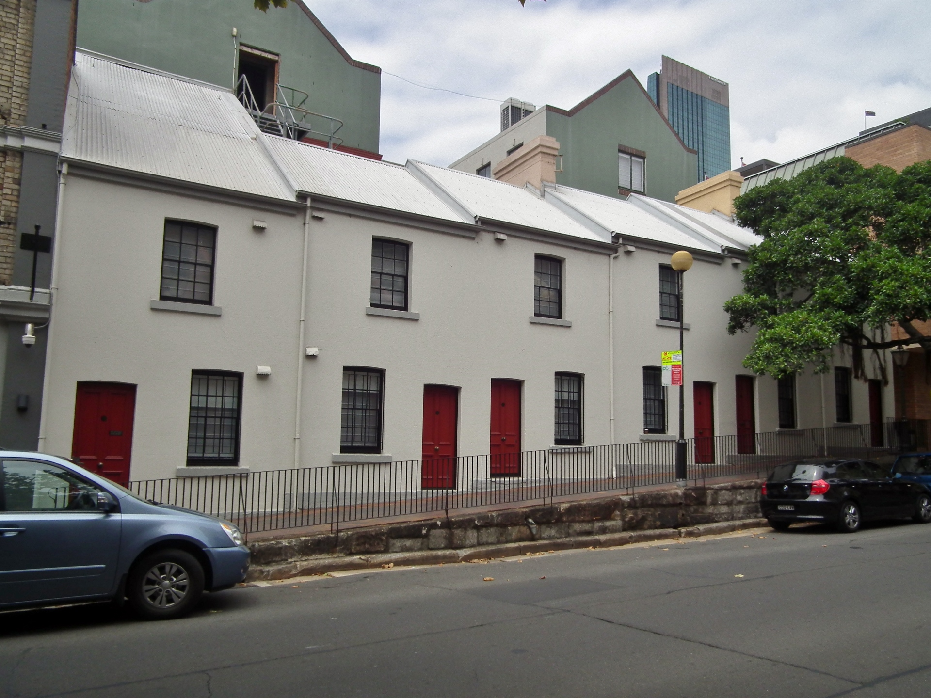 Terraces - The Rocks NSW. Built 1873-75. Now part of the Harbour Rocks Hotel complex. Located at 42-52 Harrington Street, The Rocks.